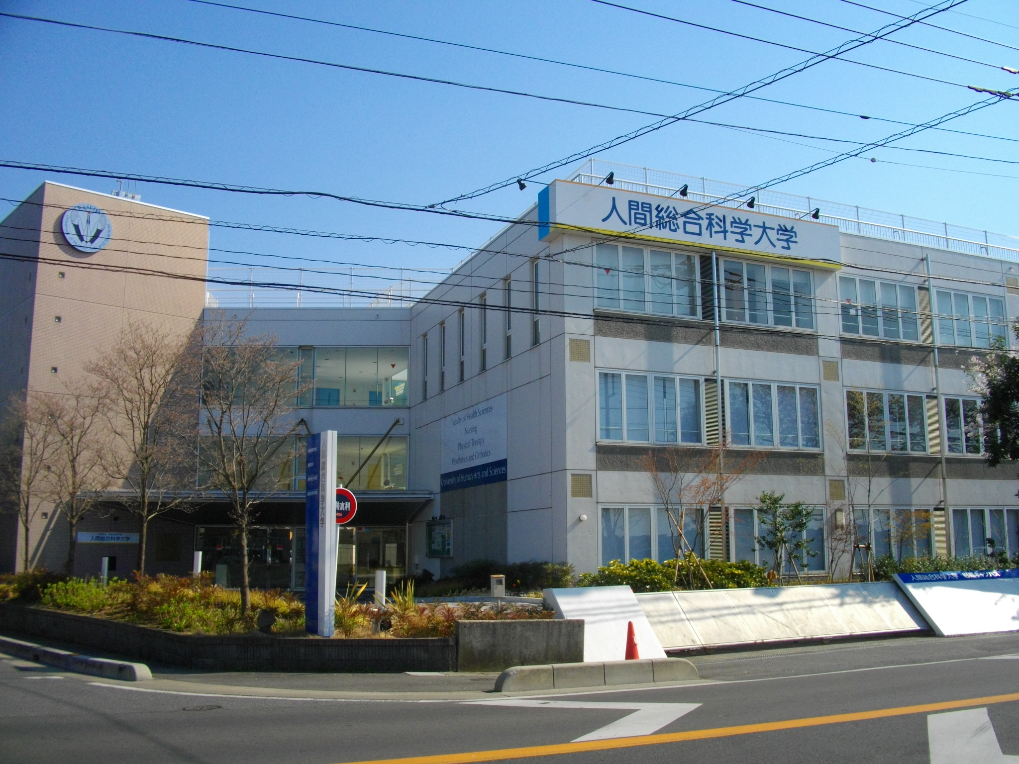 University of Human Arts and Sciences Iwatsuki Campus